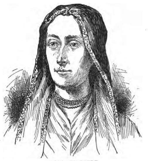 Gertrud Rask Egede. From an 1898 publication.